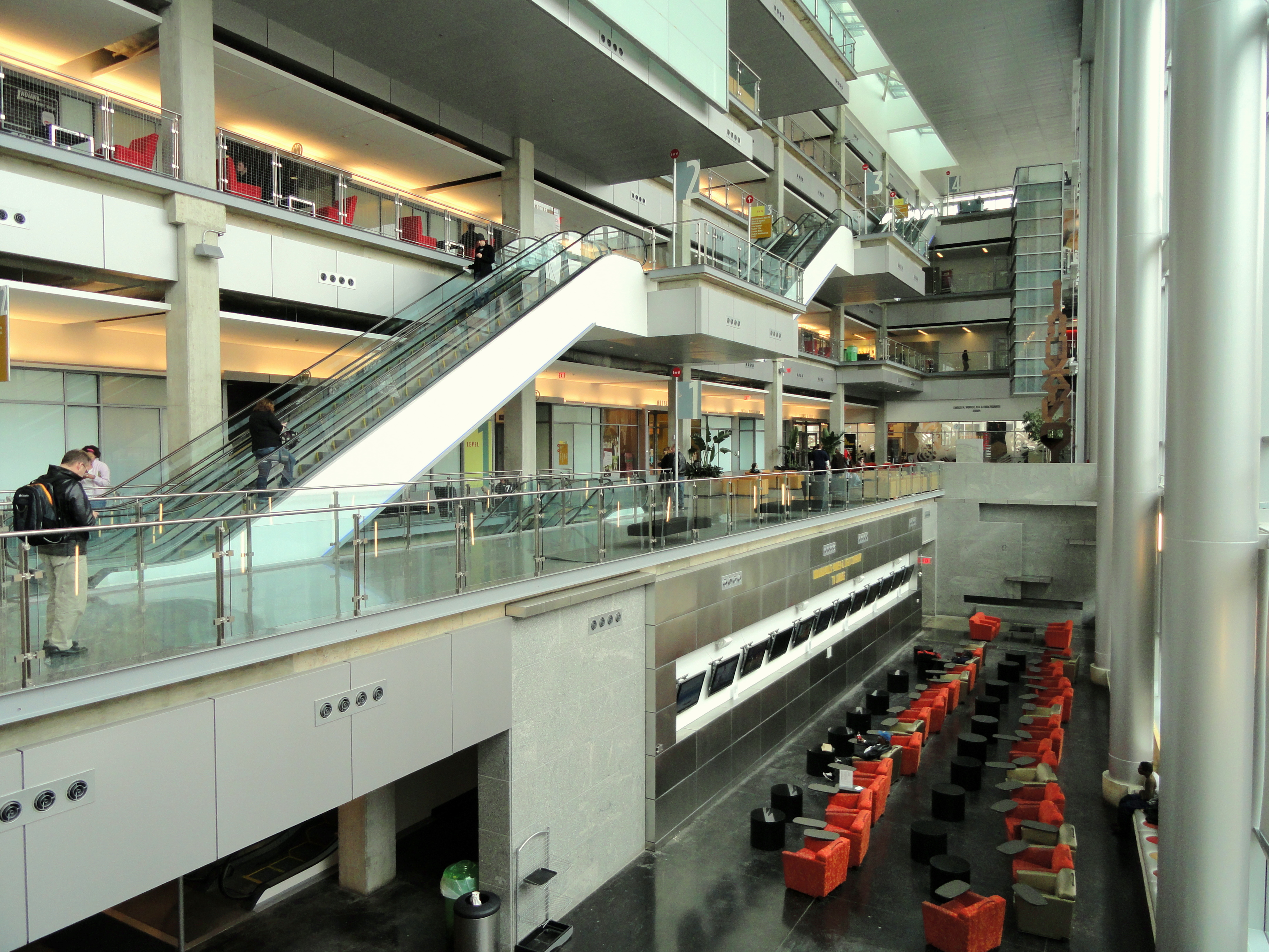 Indiana University-Purdue University Indianapolis (IUPUI) campus, Indianapolis, Indiana, USA.